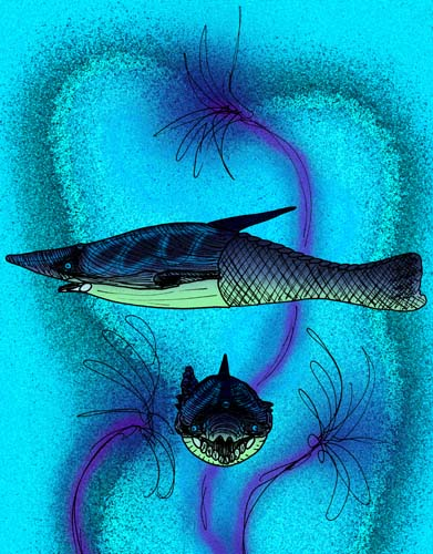 Reconstruction of the pteraspidid heterostracan, Errivaspis waynensis, of Early Devonian England